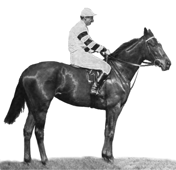 Snow Marten, winner of the 1915 Oaks Stakes.